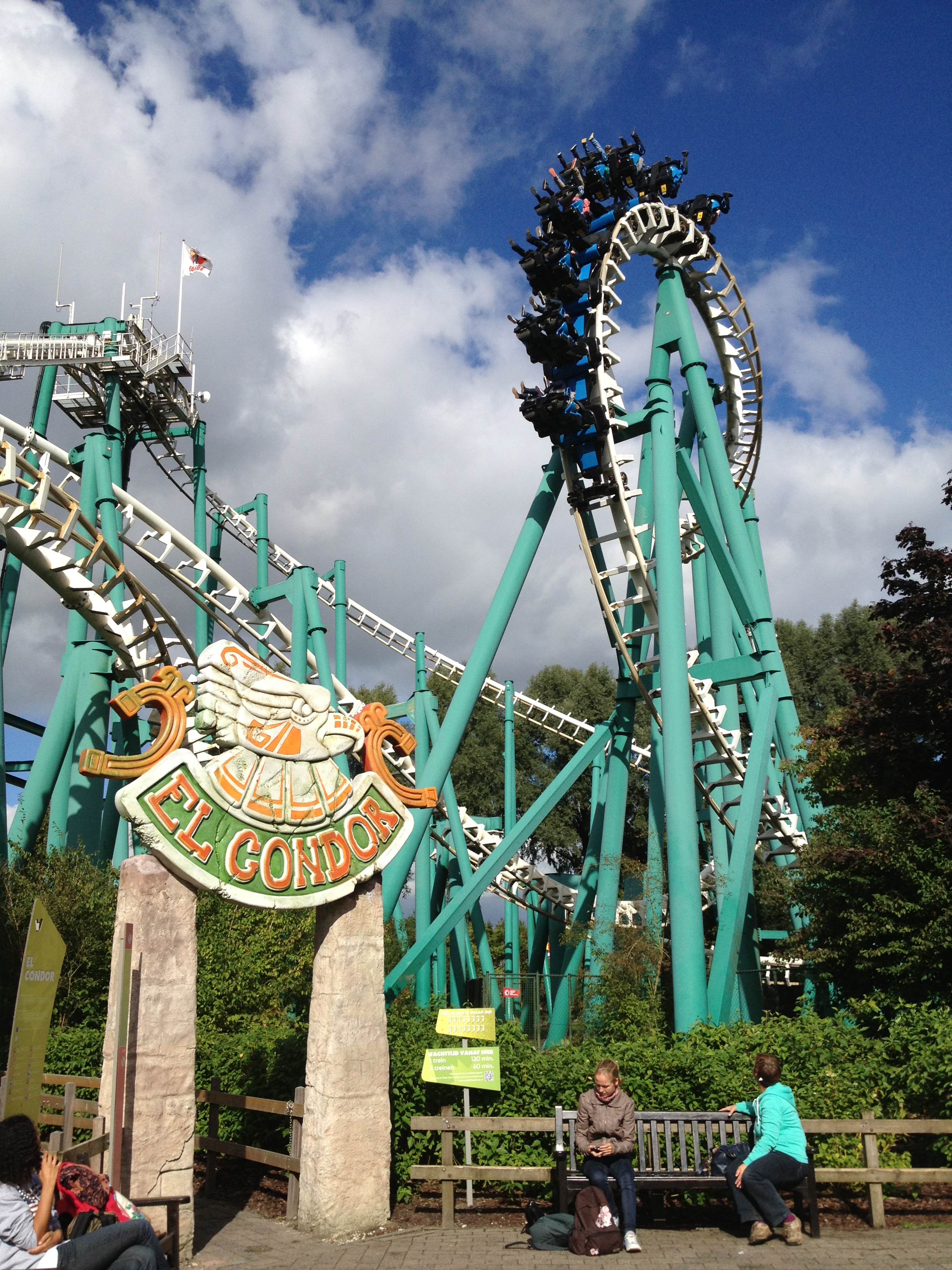 El Condor at Walibi Holland